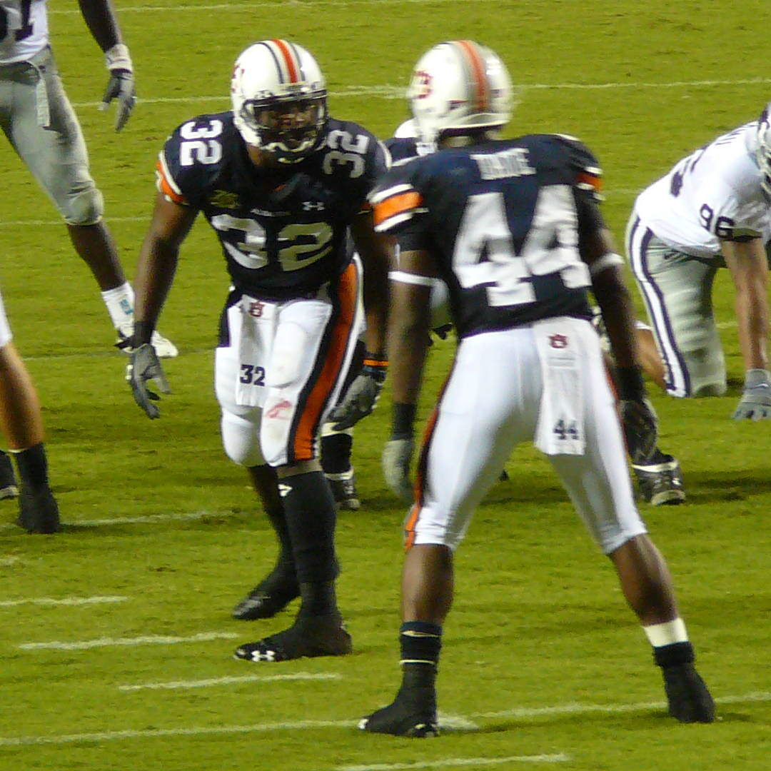 If used somewhere other than Wikipedia, Nelson, by name.